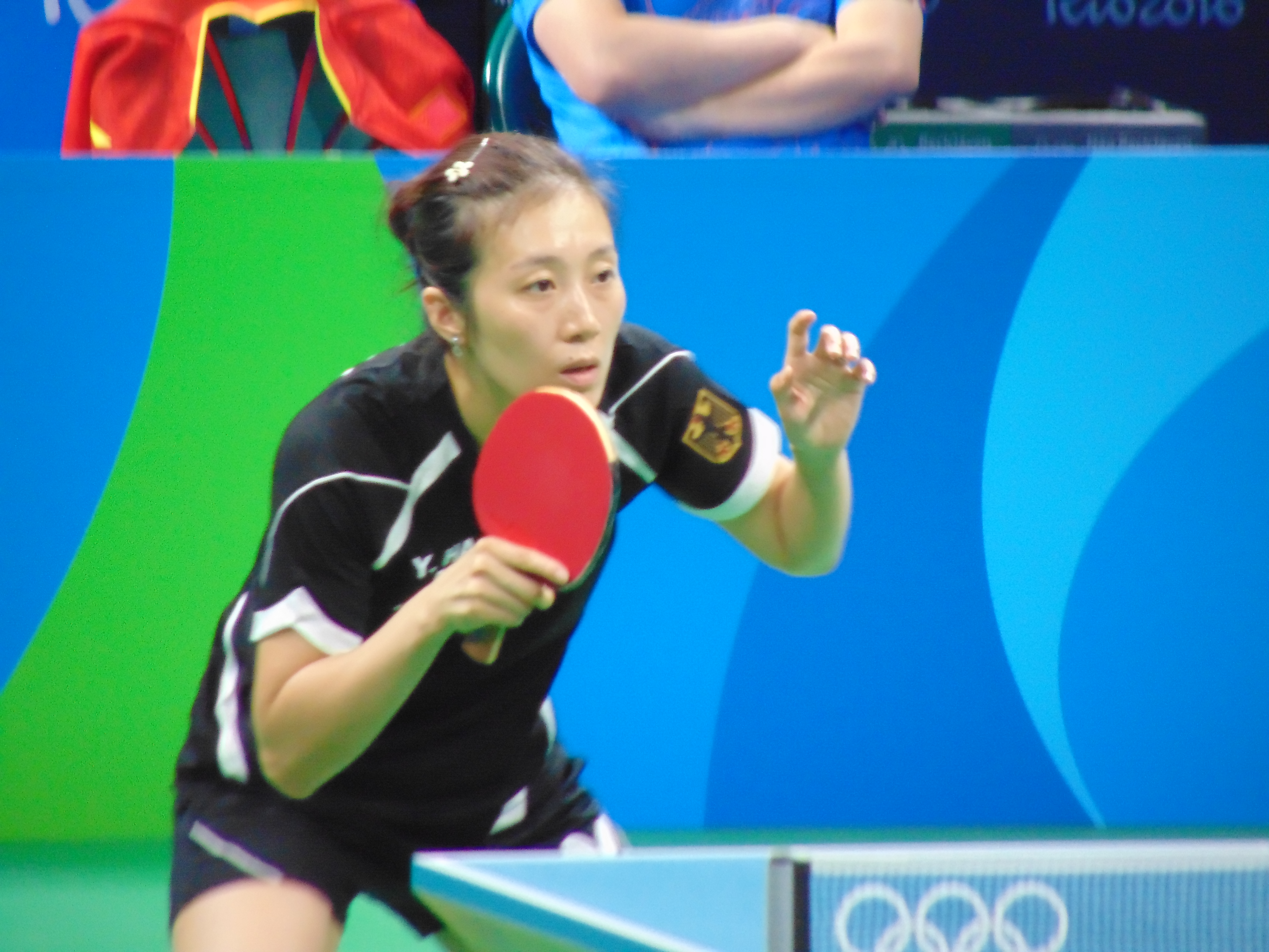 Rio 2016 - Women's table tennis quarter finals